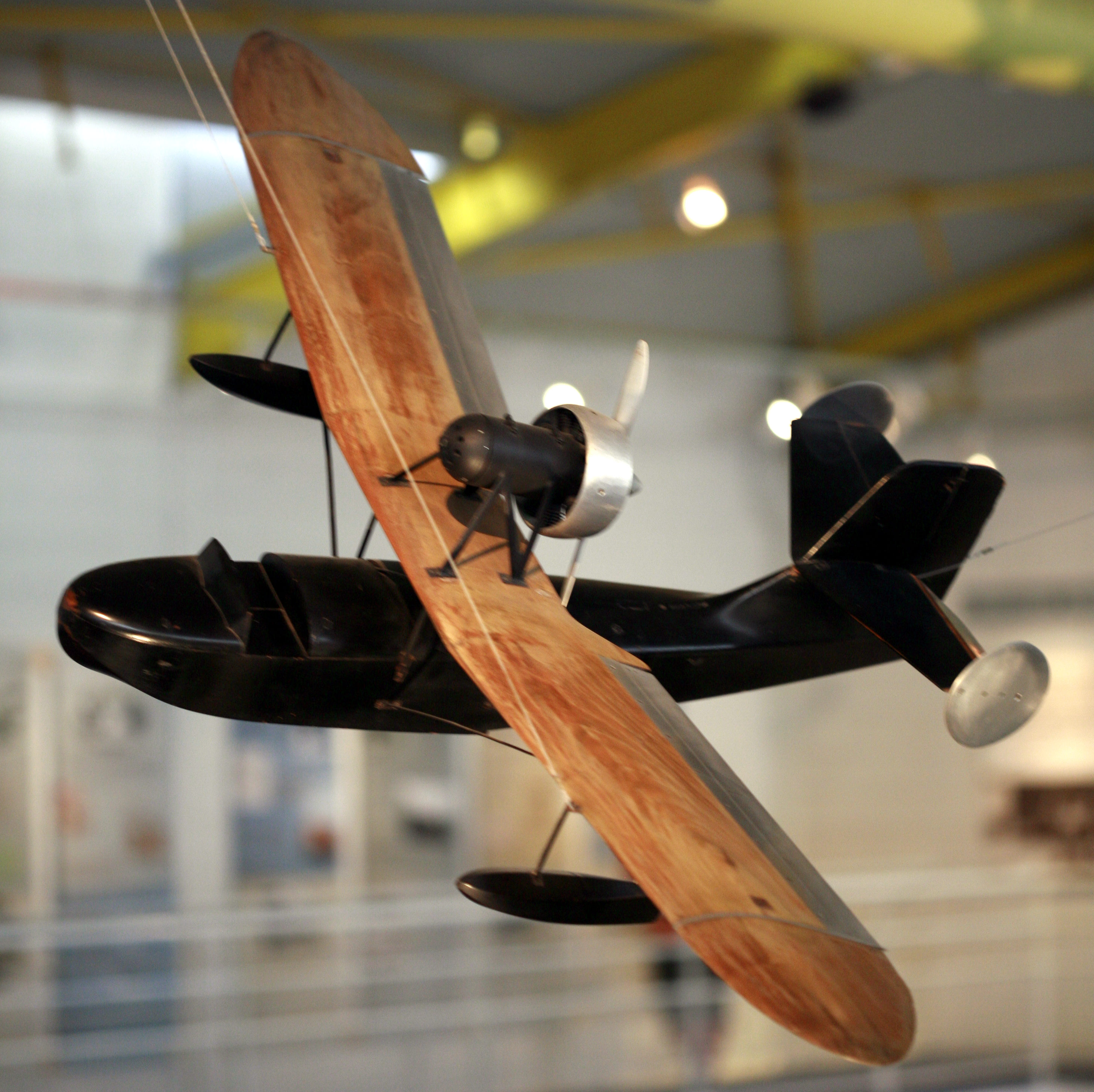 Wind tunnel model of a CAO-30 seaplane. On display at the Écomusée de Saint-Nazaire.